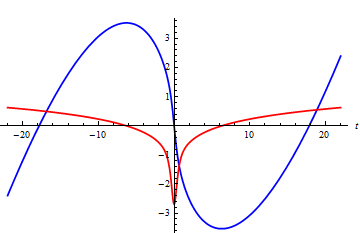 Riemann Siegel theta function (blue) and its derivative (red).